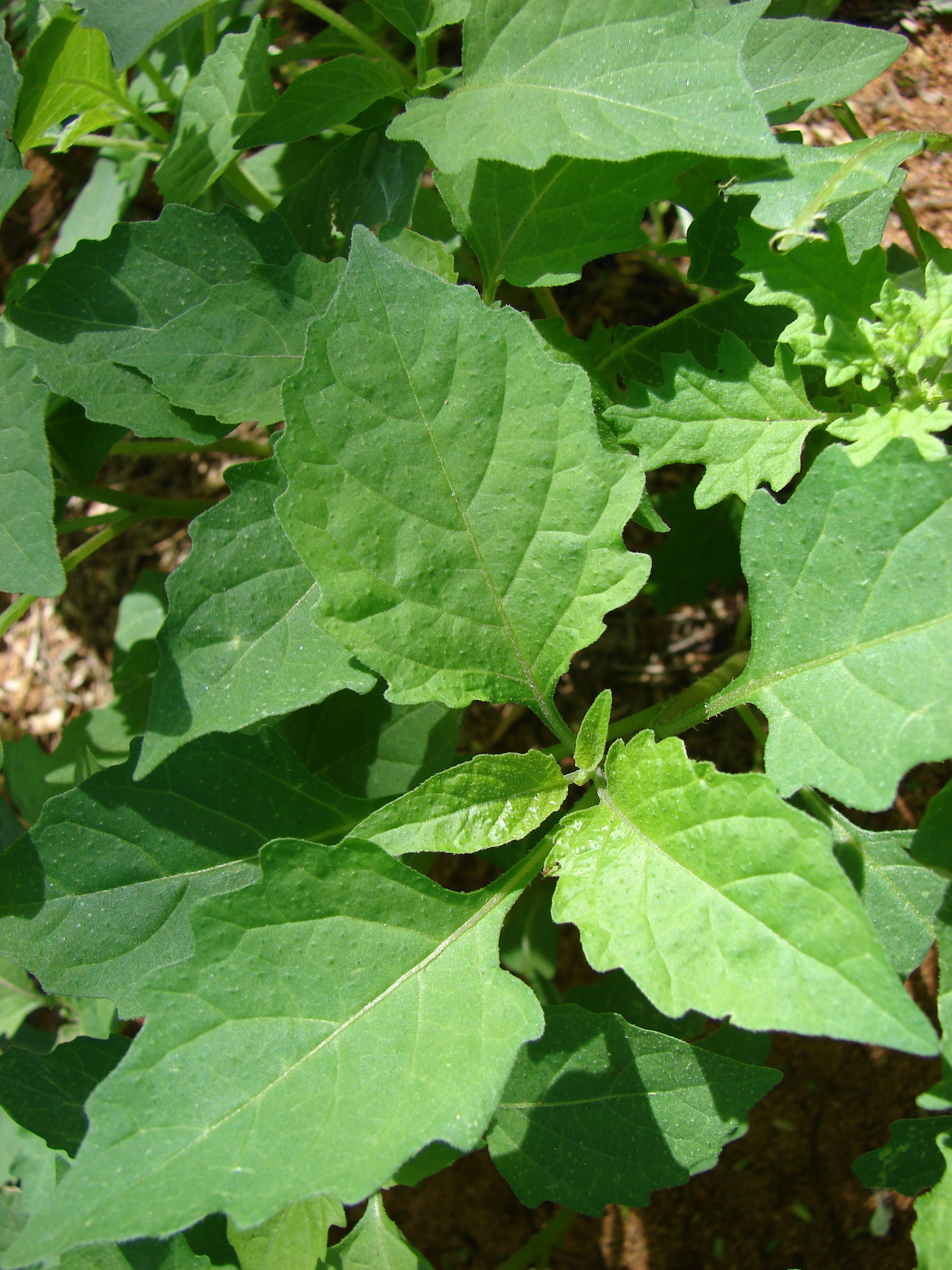 Solanum americanum (seedlings). Location: Maui, Kanaha Beach